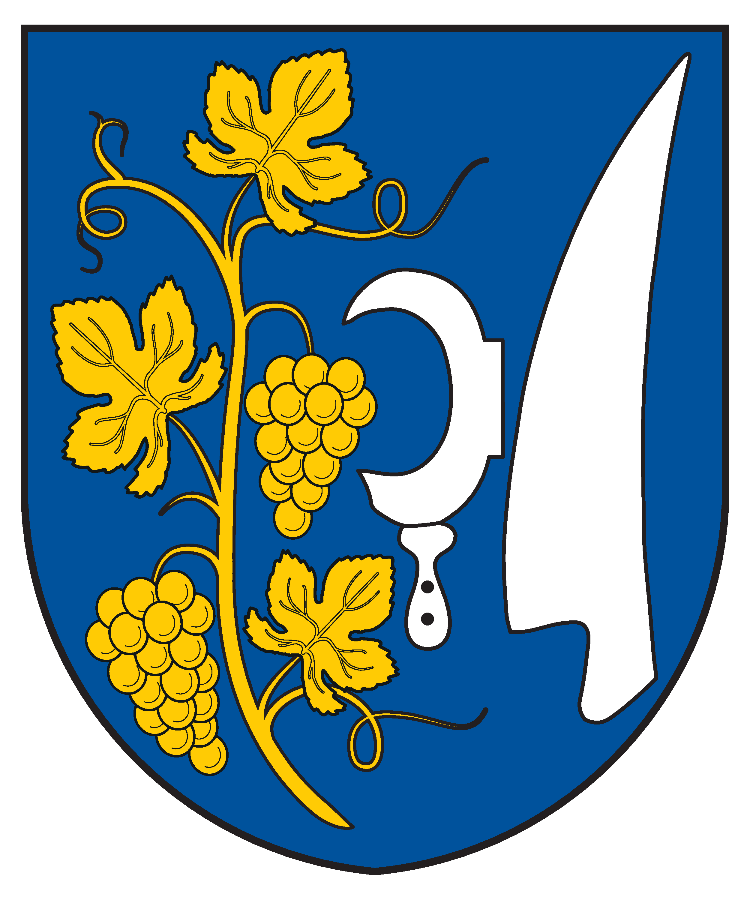 Municipal coat of arms of Troubsko village, Brno-Country District, Czech Republic.